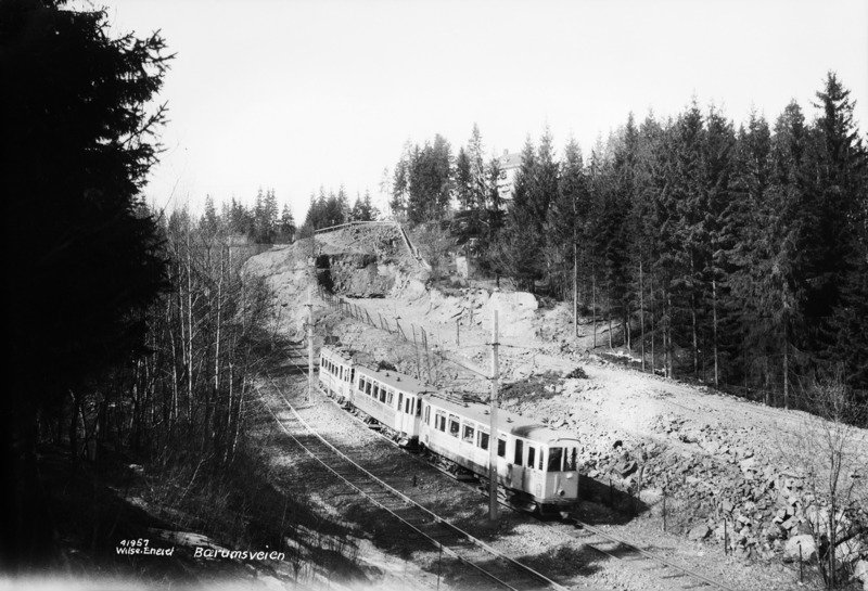 Bærumsbanen Class A train at Jar on the Lilleaker Line / Kolsås Line.